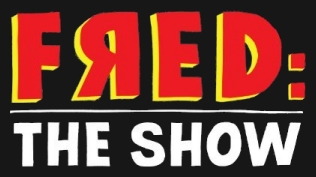 Title card of the TV series Fred: The Show